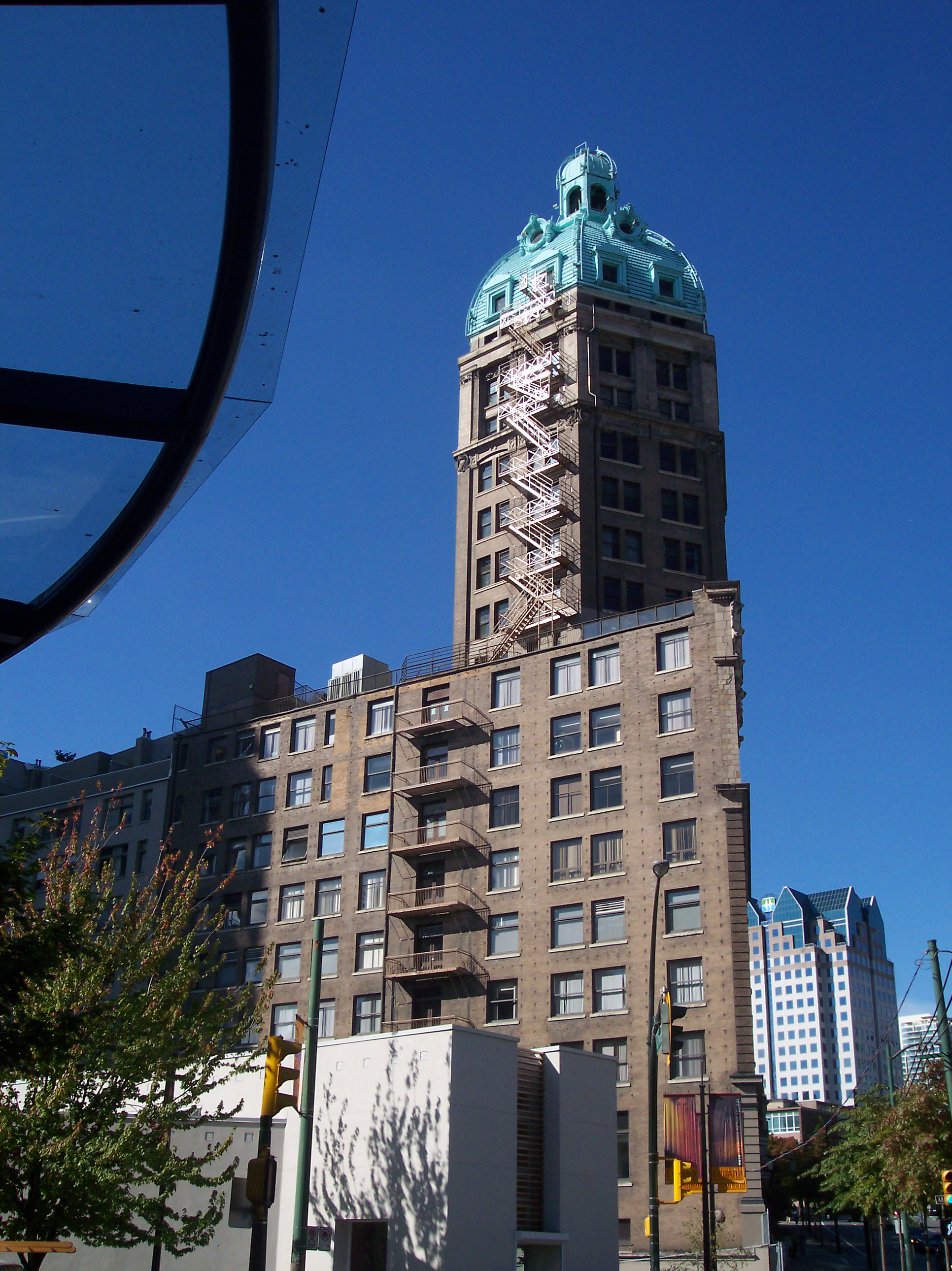 Sun Tower, Vancouver, BC, Canada